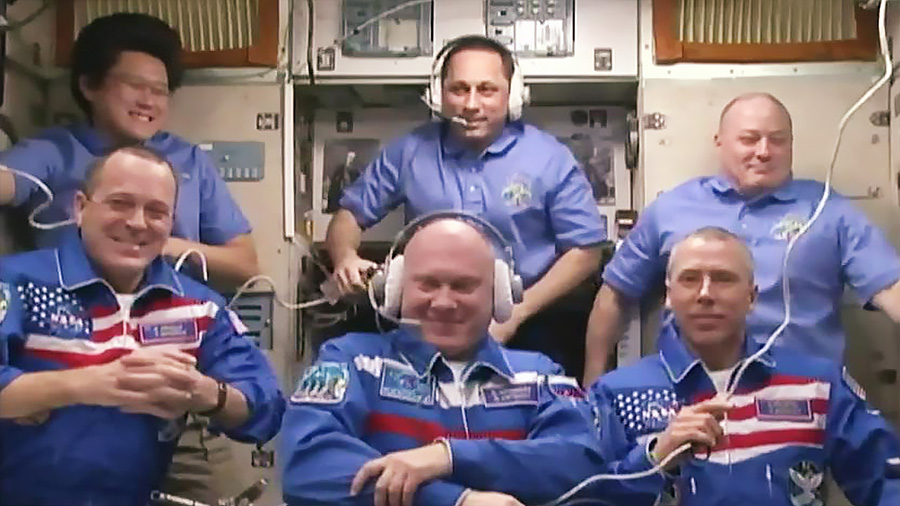 The newest Expedition 55 crew members (front row from left) Drew Feustel, Oleg Artemyev and Ricky Arnold gather in the Zvezda service module and speak to family and colleagues back on Earth. Behind them are (from left) Norishige Kanai, Commander Anton Shkaplerov and Scott Tingle.